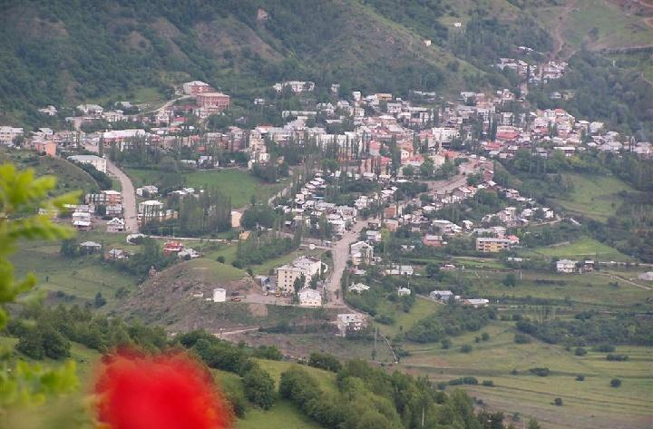 Picture of Posof. Eigen werk.